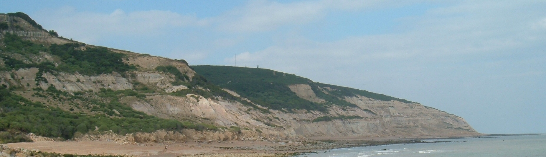 Covehurst Bay, near Hastings, Sussex, England, looking east from west side at low tide.